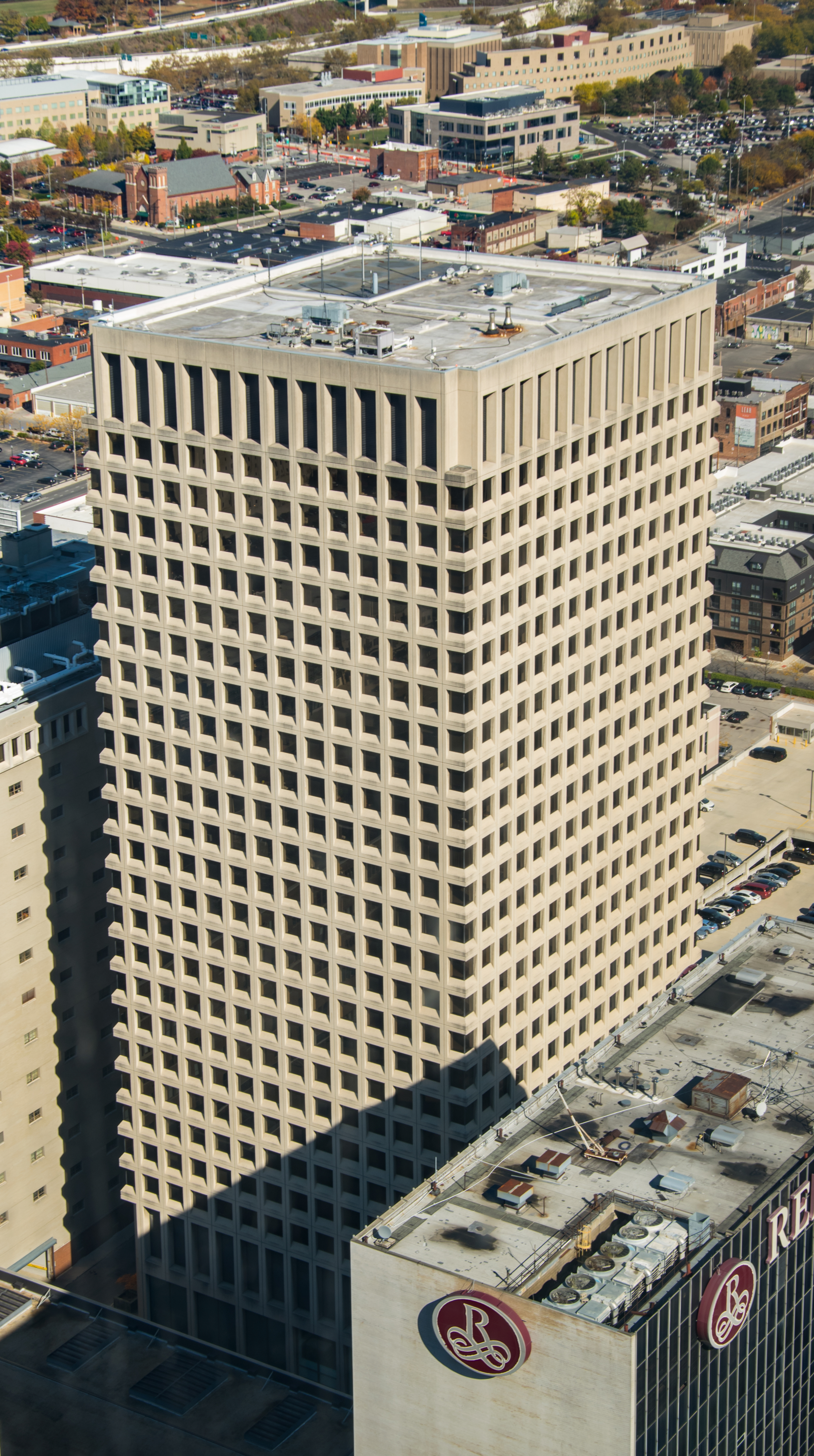 Continental Center viewed from Rhodes State Office Tower.